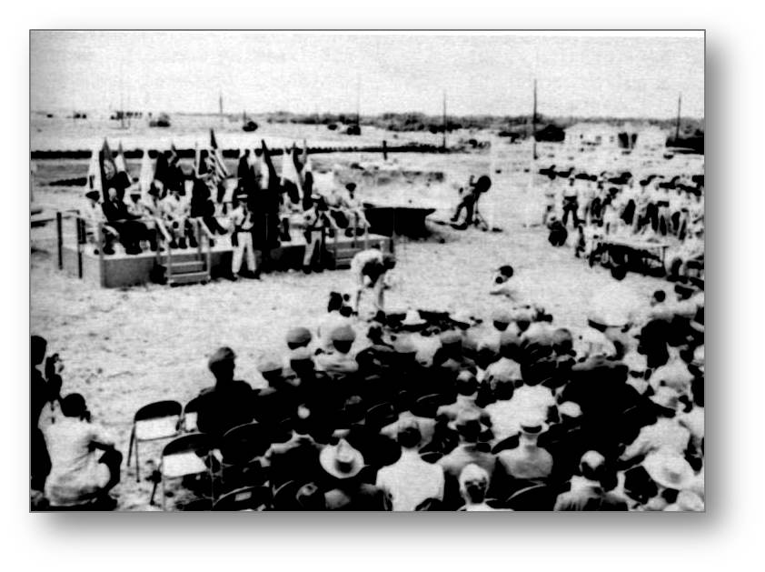 Photo of the groundbreaking ceremony for USAFSAM at Brooks Air Force Base, Texas